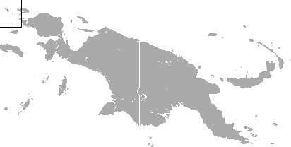 Gebe Cuscus (Phalanger alexandrae) range